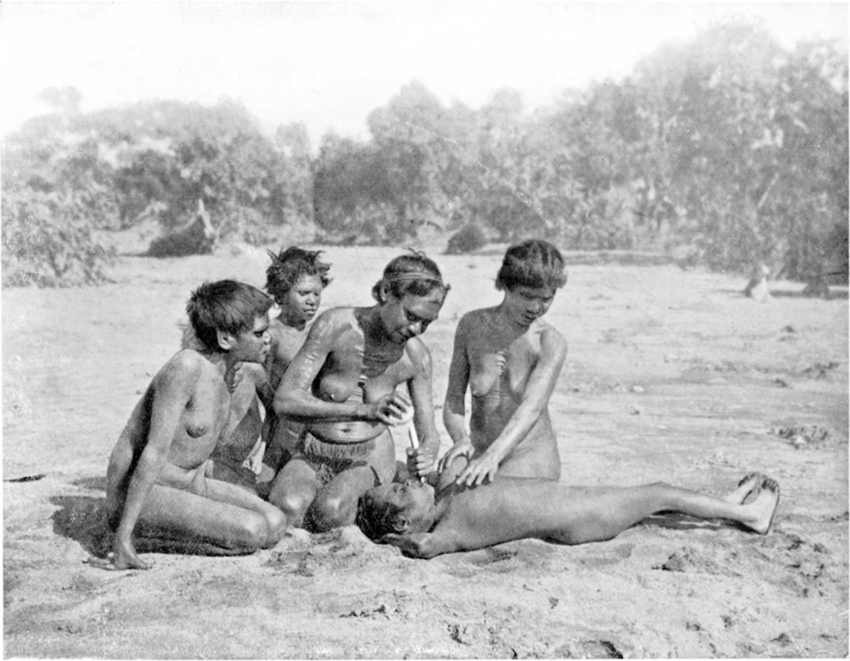 Knocking out a girl's tooth — Kaitish tribe. In many Australian tribes it is the custom to knock out one of the upper incisor teeth as soon as a boy or girl reaches a certain age.